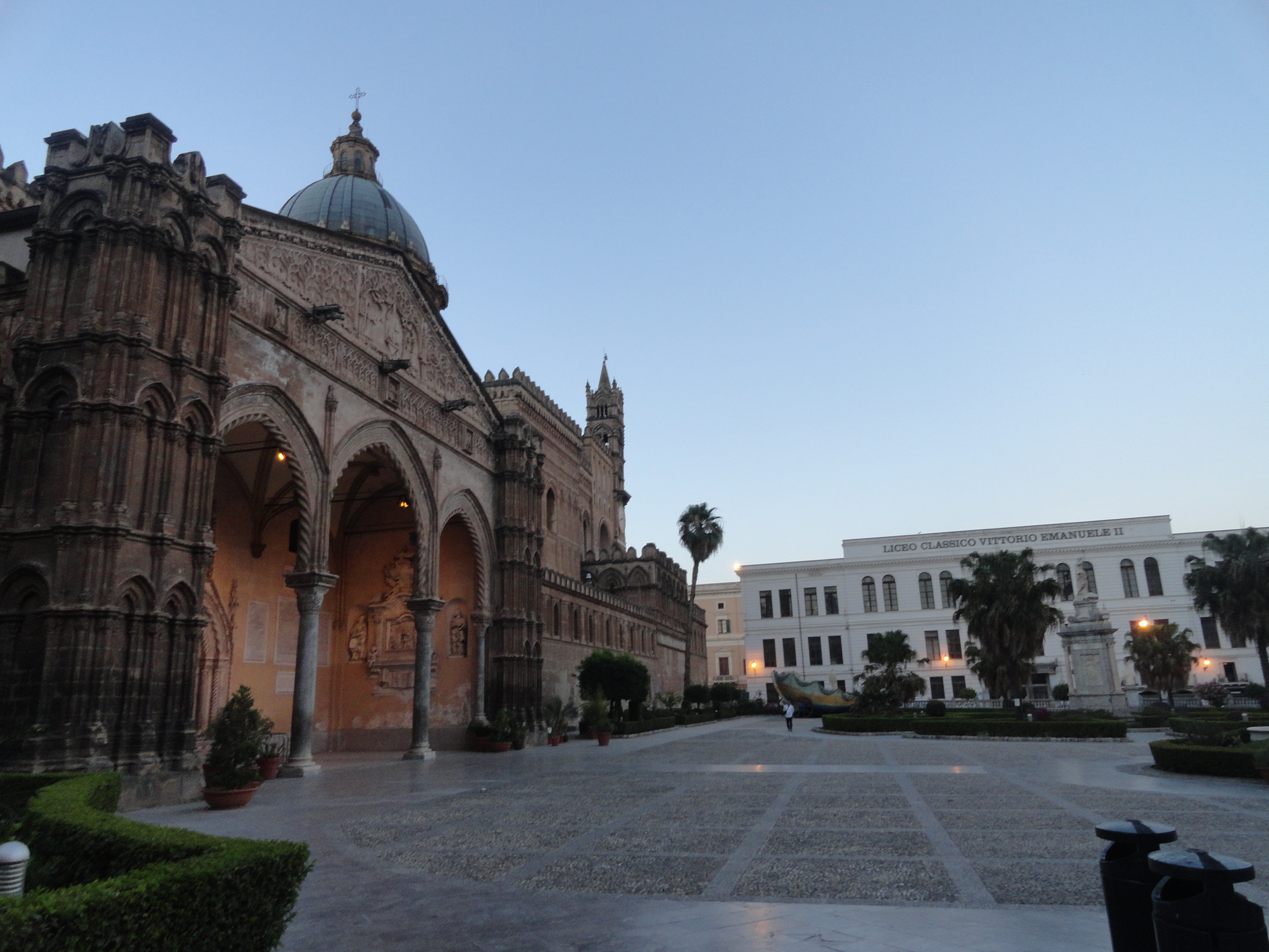 The square in front of the Cattedrale and the Liceo Classico Vittorio Emanuele II in Palermo, Sicily, Italy. Check out some of our latest travel tips at